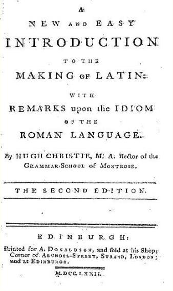 Title page for Christie's "A New and Easy Introduction to the Making of Latin" (2nd ed. 1772)